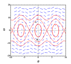 Retrato de fase do pêndulo.